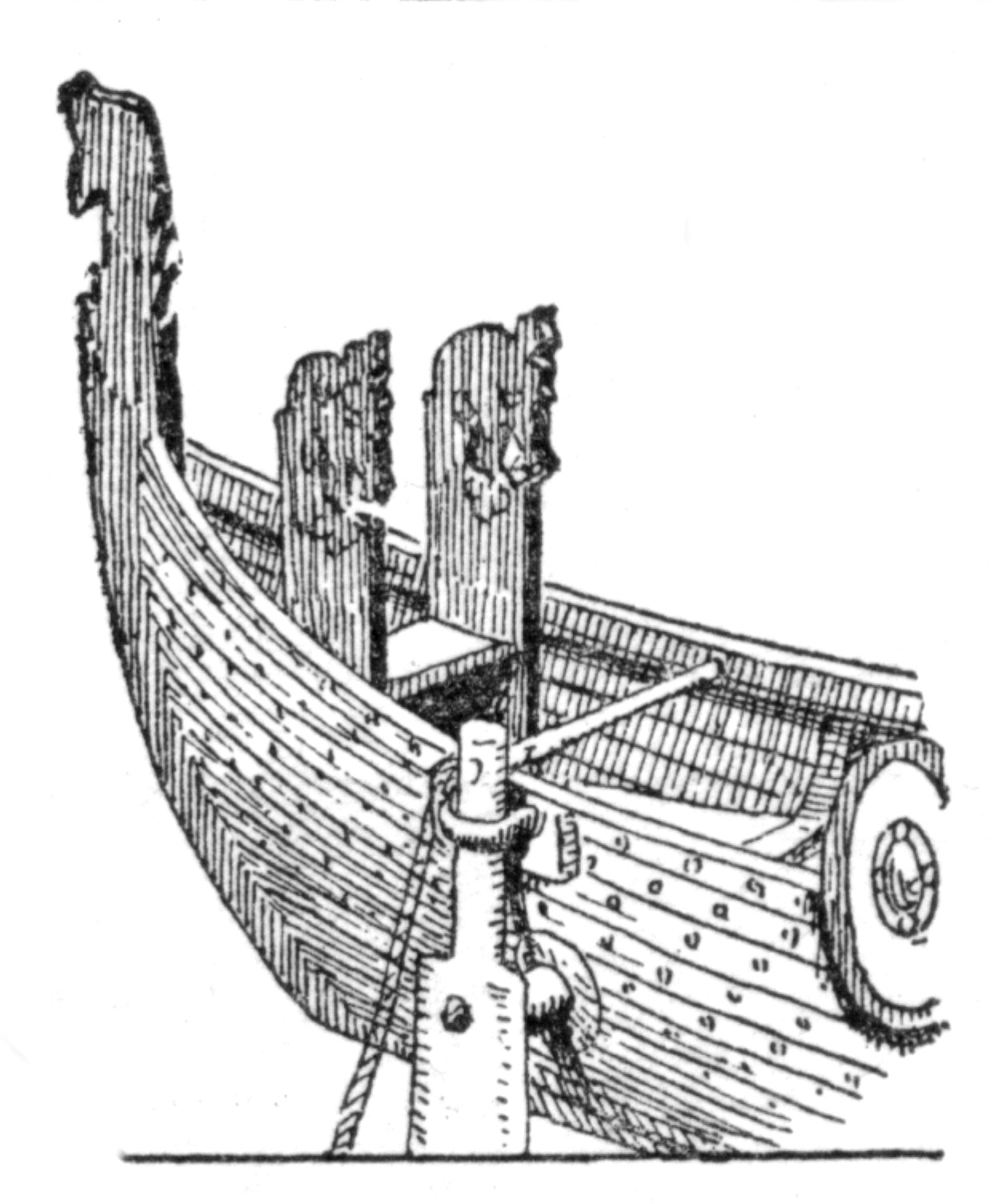 The Drakkar stern - pilot position